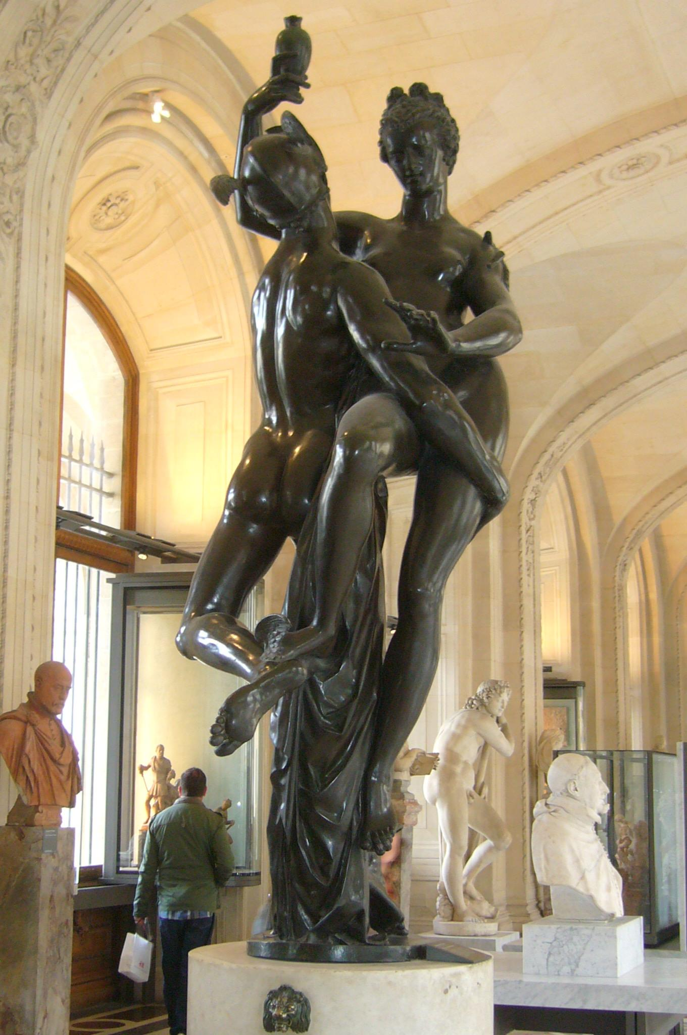 Mercury and Psyche . Bronze, 1593. Made in Prague for Emperor Rudolph II, taken as booty by the Swede army in 1648 and brought to France by Queen Christina after her abdication.